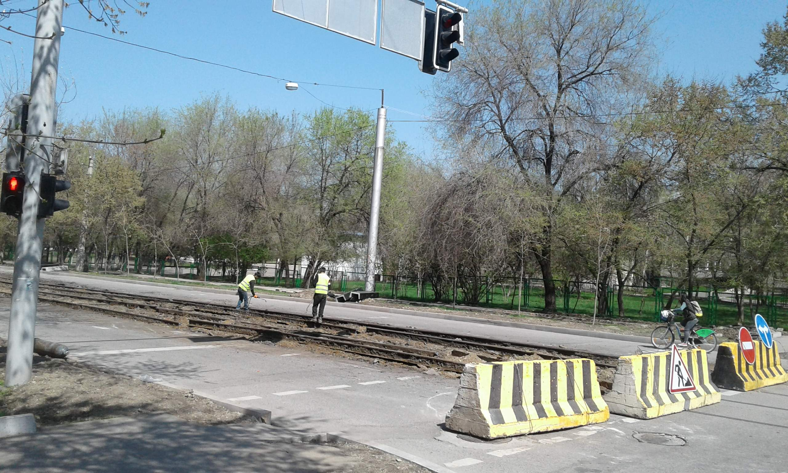 Tramway rails dismantling in Almaty, Kazakhstan